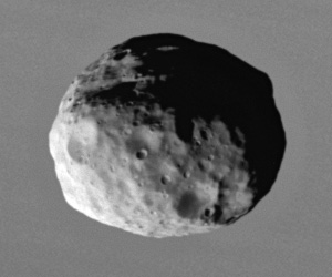 Janus, Saturn's moon (Saturn in background). Image taken by Cassini. NASA PD